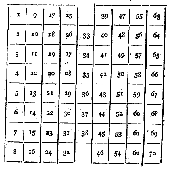 A biribi card as illustrated in an 18th century book on gambling games (see reference above).